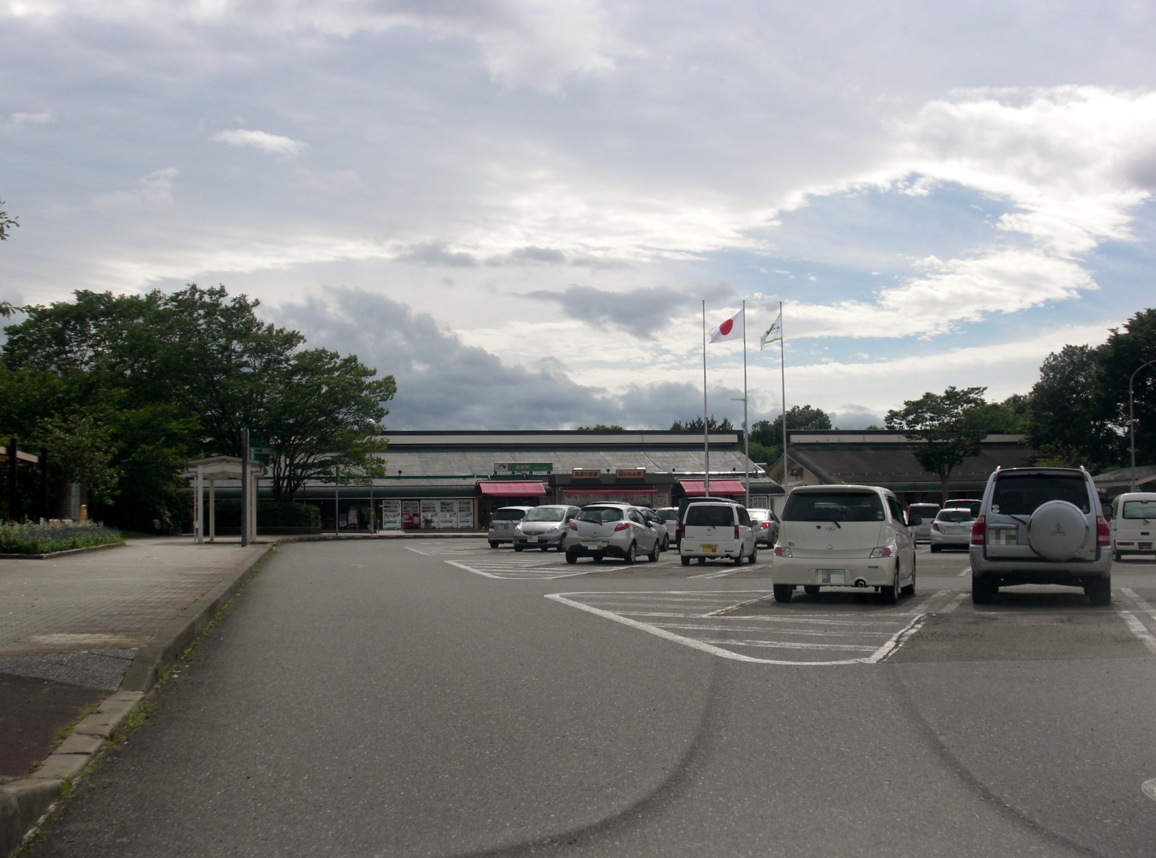 This is the Tohoku EXPWY Chojahara Service Area, which is located in Osaki, Miyagi, Japan.